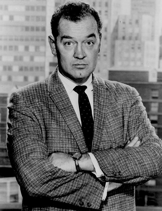 Photo of actor Arch Johnson from the summer replacement television drama The Asphalt Jungle. The series was somewhat based on the 1950 film of the same name.